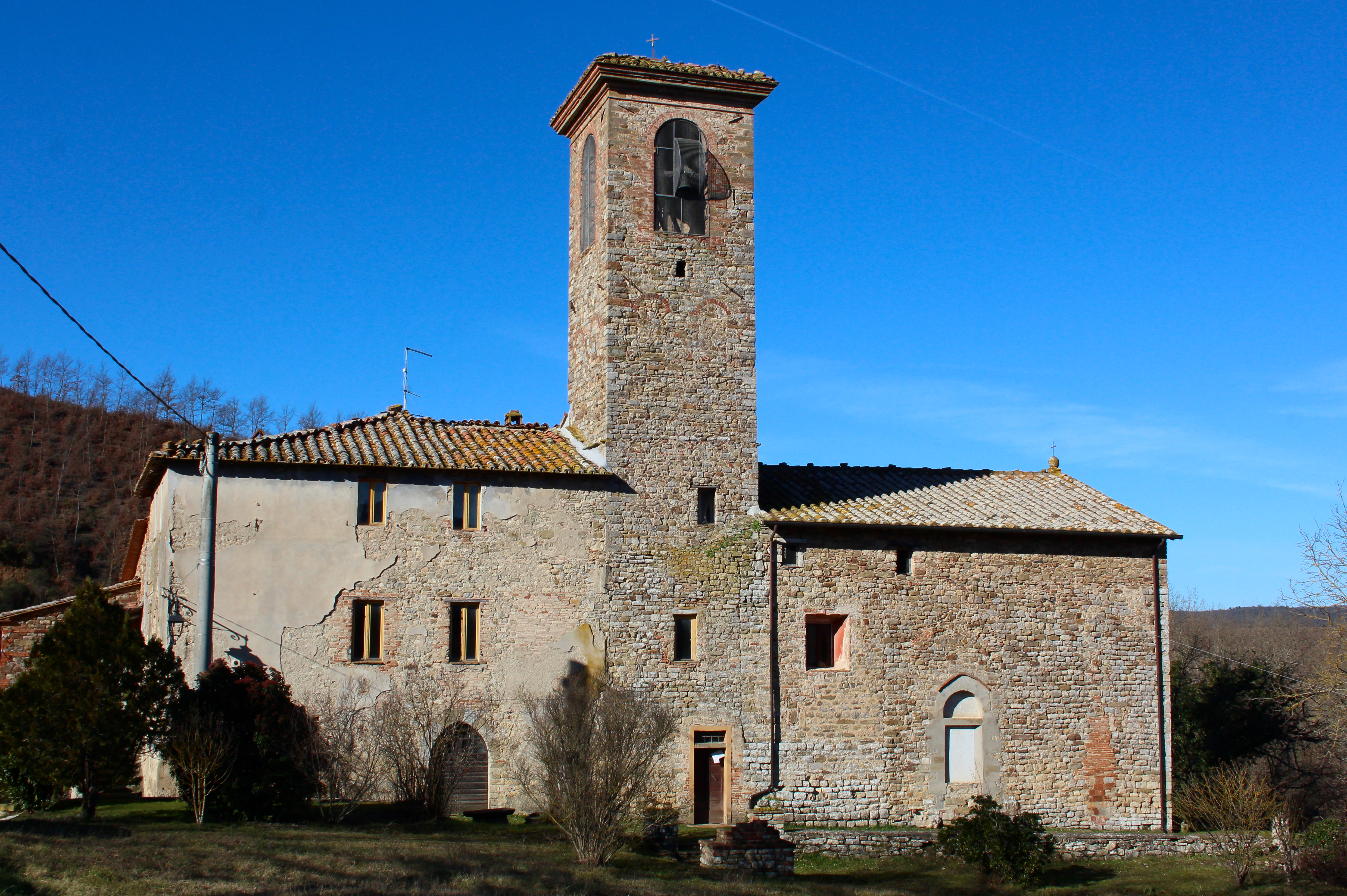 Ex Abbey and now Church San Donato de Ierna, territory of Piegaro, Province of Perugia, Umbria, Italy